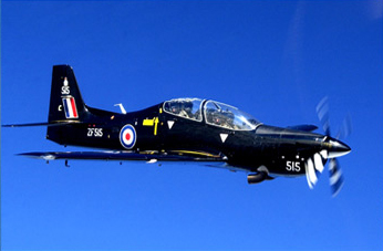 Shorts Tucano (ZF515)